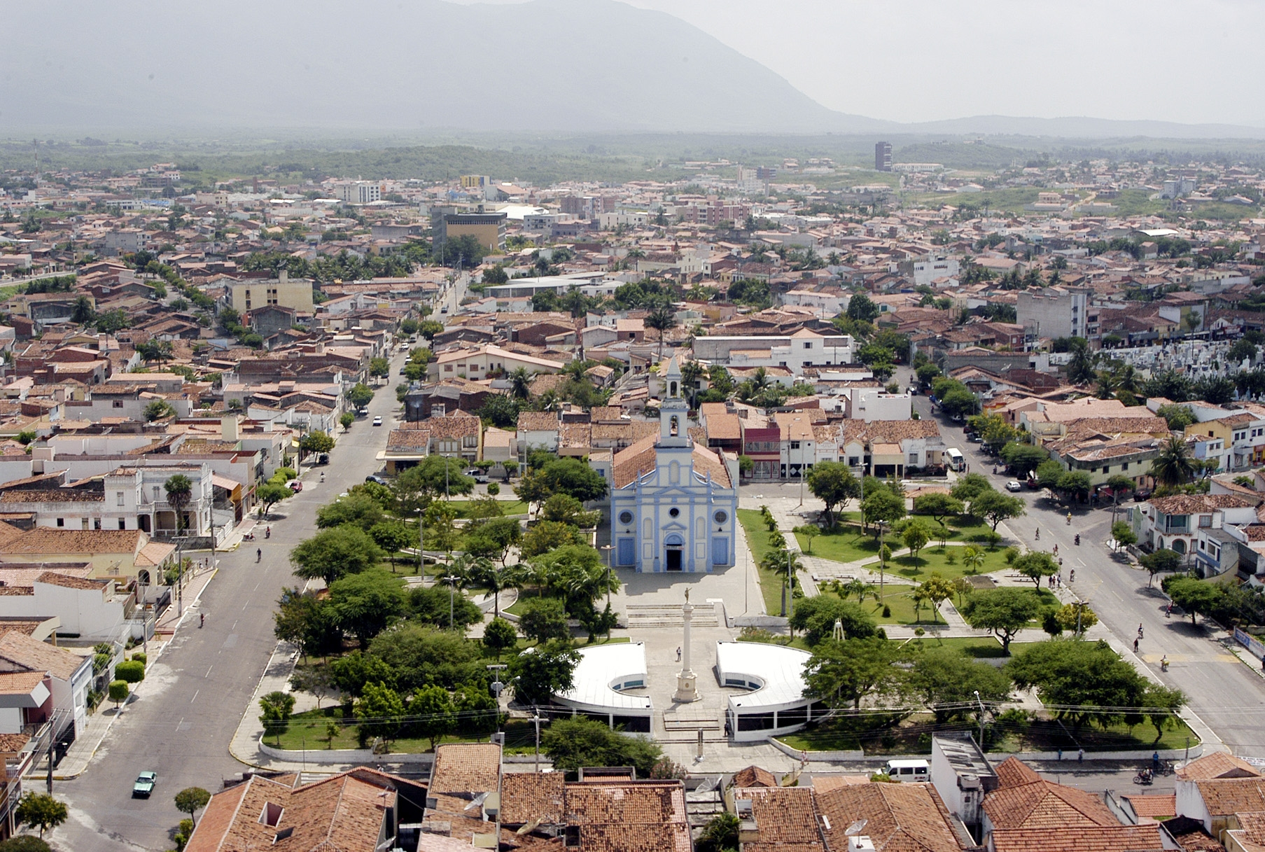 eclipse museum